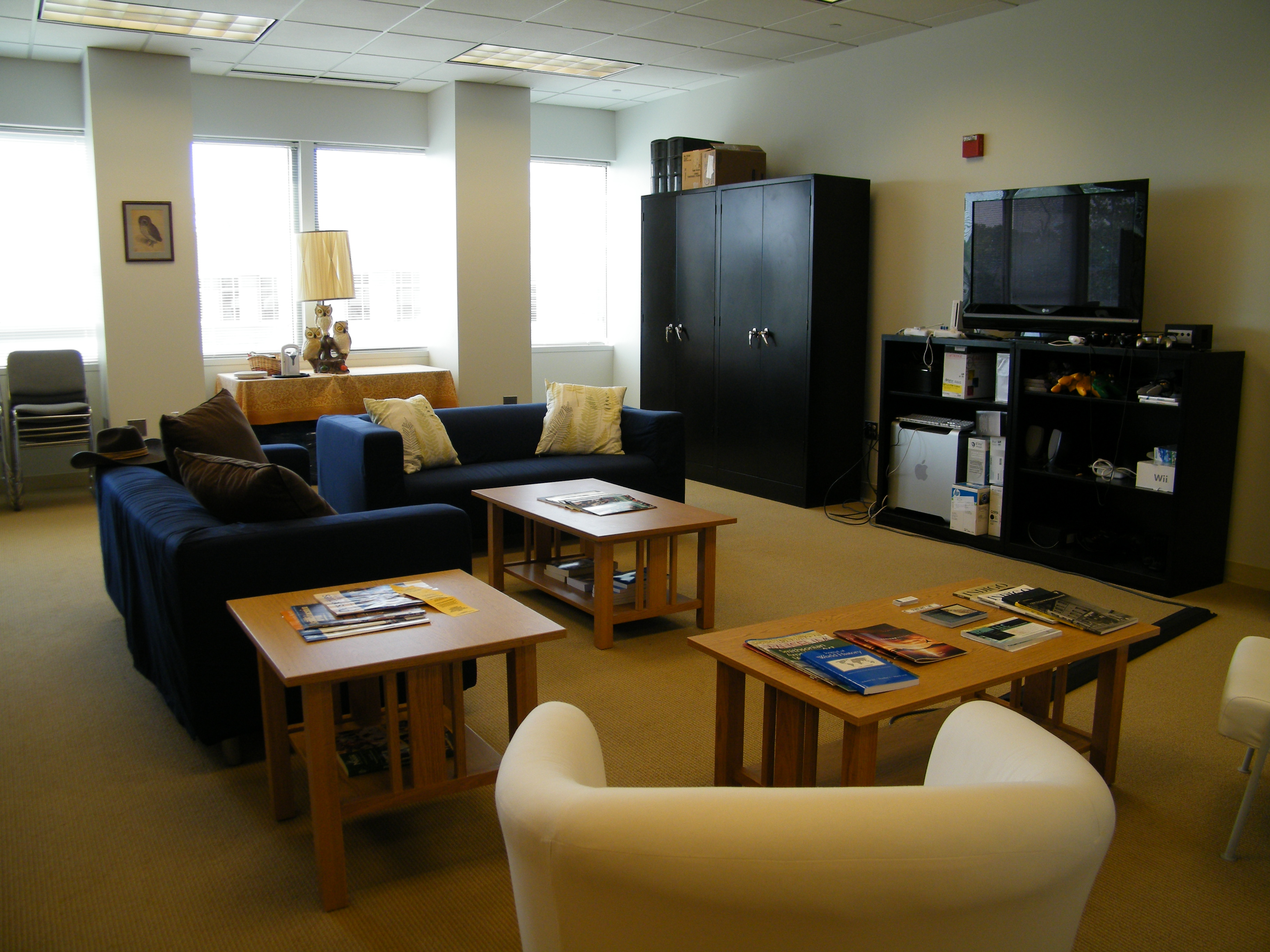 Roy Rosenzweig Center for History and New Media